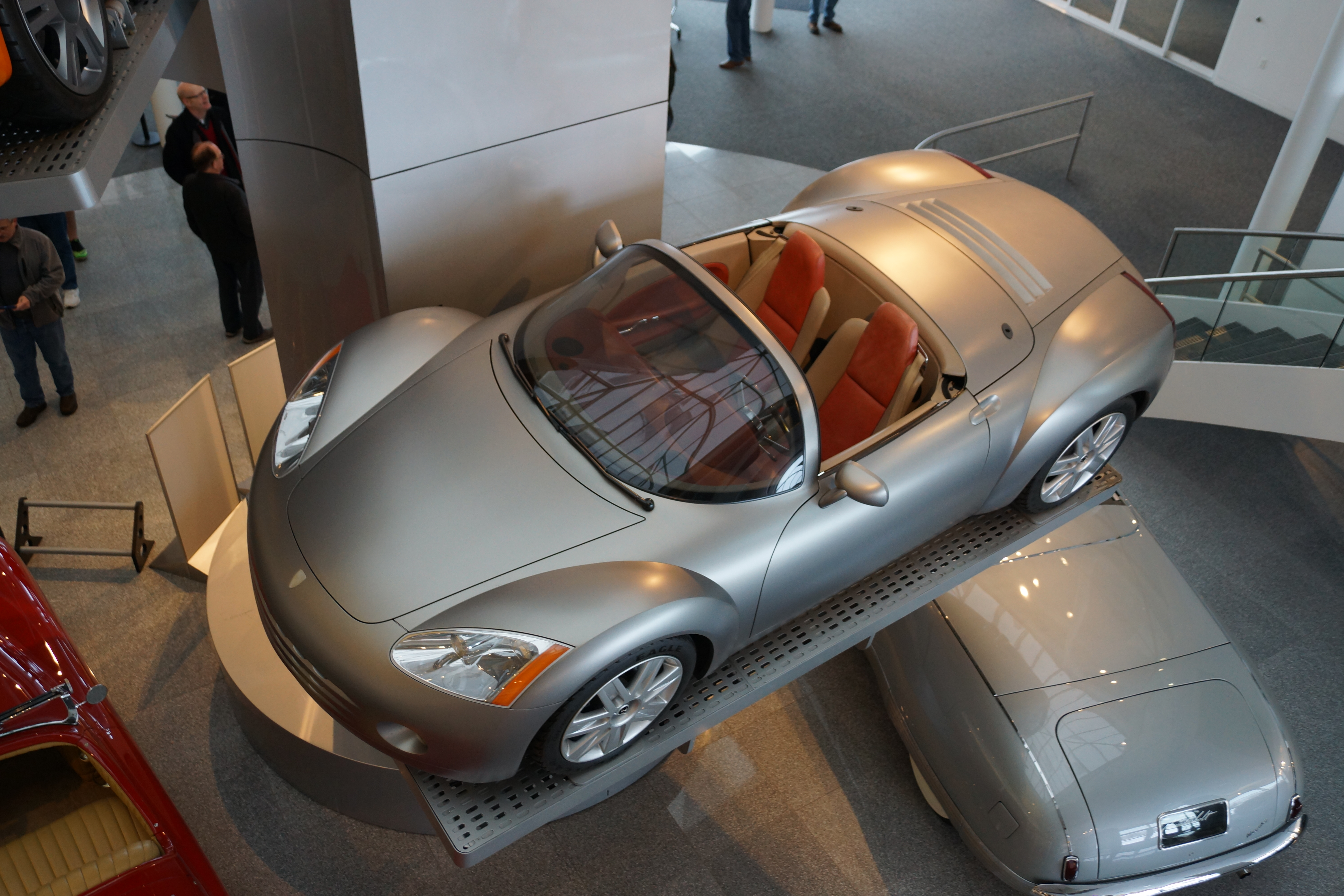 Click here for more car pictures at my Flickr site. Or here for my Car Crazy Tumblr site. Back on November 4th, Hemming's Blog posted an article about the closing of the Walter P. Chrysler Museum . I had missed a couple other opportunities with the WPC Club and others to get into the museum, after it had closed to the public. I did not want to regret missing this last chance to see all of the vehicles before being spread out to other facilities. I trekked from Western Minnesota to Eastern Michigan during Winter Storm Decima. I missed the worst parts of the storm, but still had to endure the aftermath winds, sub zero temperatures and a lake effect snow storm. The trip was difficult, but well worth it. I got to see several Chrysler Corporation concept and show cars that I had only seen pictures of before. There were several clever interactive displays demonstrating various innovations over the years. Since it was the last chance, I duplicated several shots using different camera settings to see what produced better results. I wish I had invested in a strobe light diffuser for all of those indoor pictures. I have not had much experience or success in the past with indoor car images.